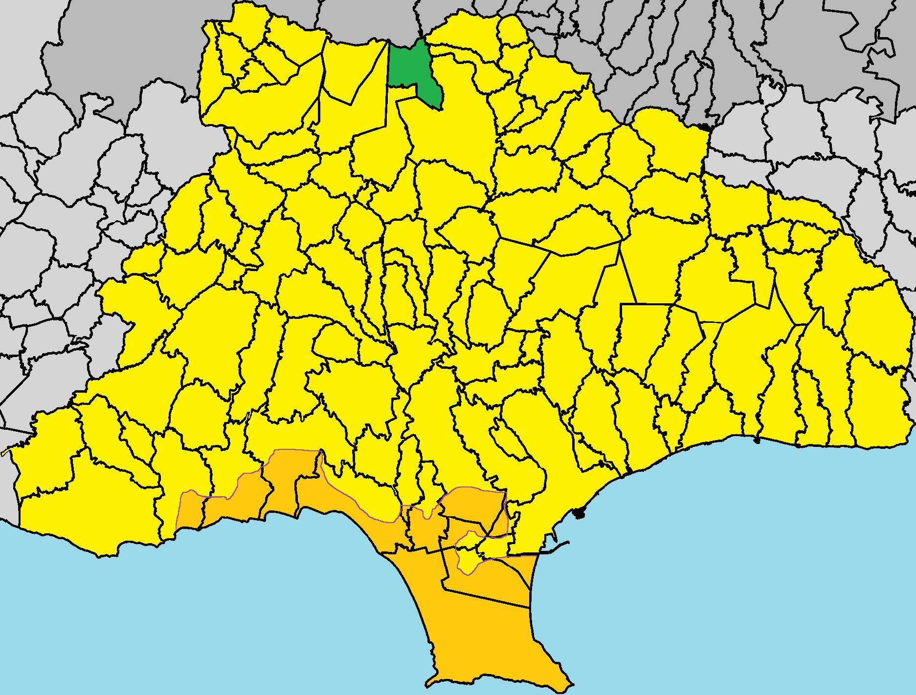 Amiantos in Limassol District.